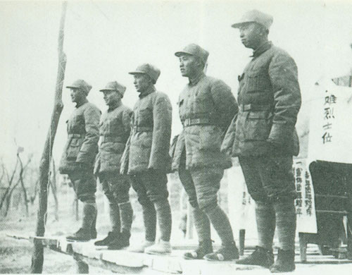 Chinese (Simplified): 1942, Taihang Military Region and the main leaders in the 129 division Year gathering will be the podium. From left: Liu, Deng Xiaoping, Cai Shufan, Lee, Wang Shusheng.